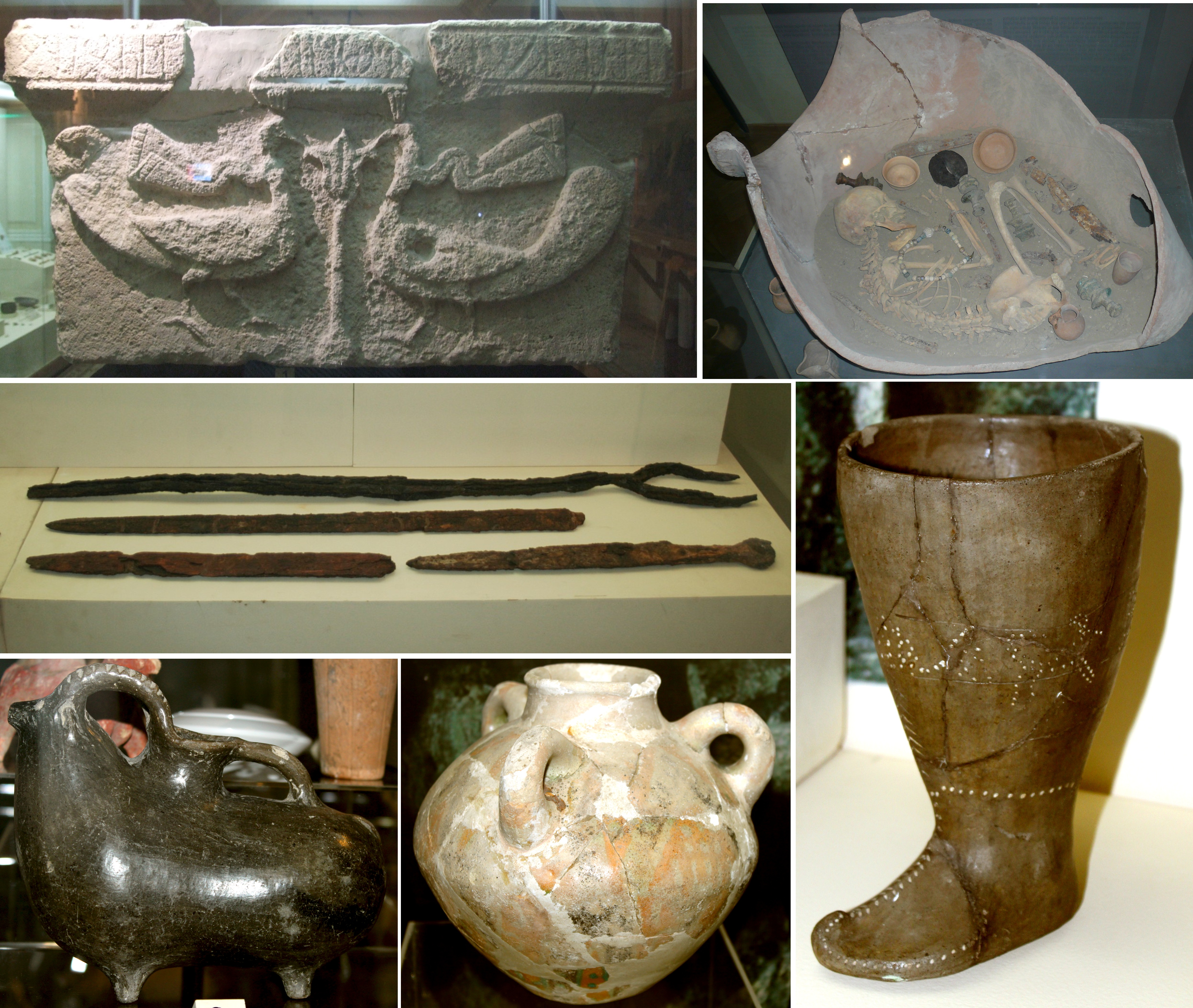 Findings from Mingachevir archaeological complex: Base of a column with Albanian inscription (5th-6th cc. AD); Grave of a woman in jar (2nd c. BC - 2nd c. AD ); Iron swords, pitchfork and iron dagger in bronze sheath from Mingachevir (3rd c. BC-8th c. AD); Ram-shaped crockery (4th c BC - 3rd c AD); Glazed vessel brought from Assyria (13th-8th cc. BC); Boot-shaped pottery from Mingachevir (13th-8th cc. BC).